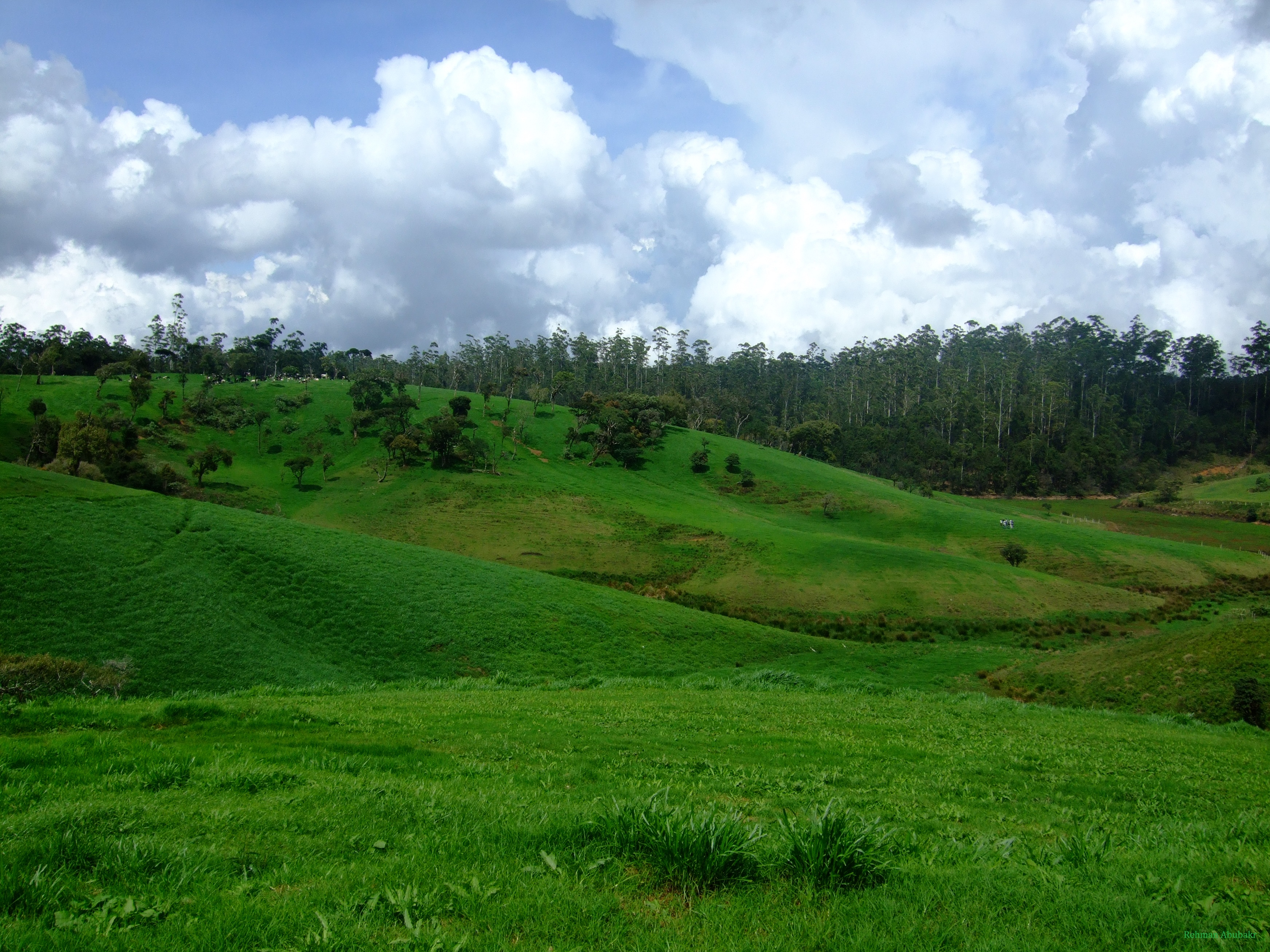 Hills and grasslands at Ambewela Farms, Sri Lanka.